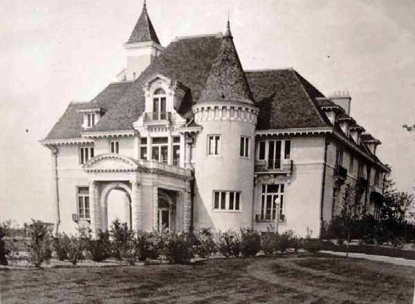 Unknown author, from the private collection of Don Rice. The image is dated circa 1910.